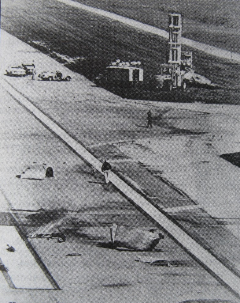 American Airlines Flight 191（N110AA）wreckage on runway